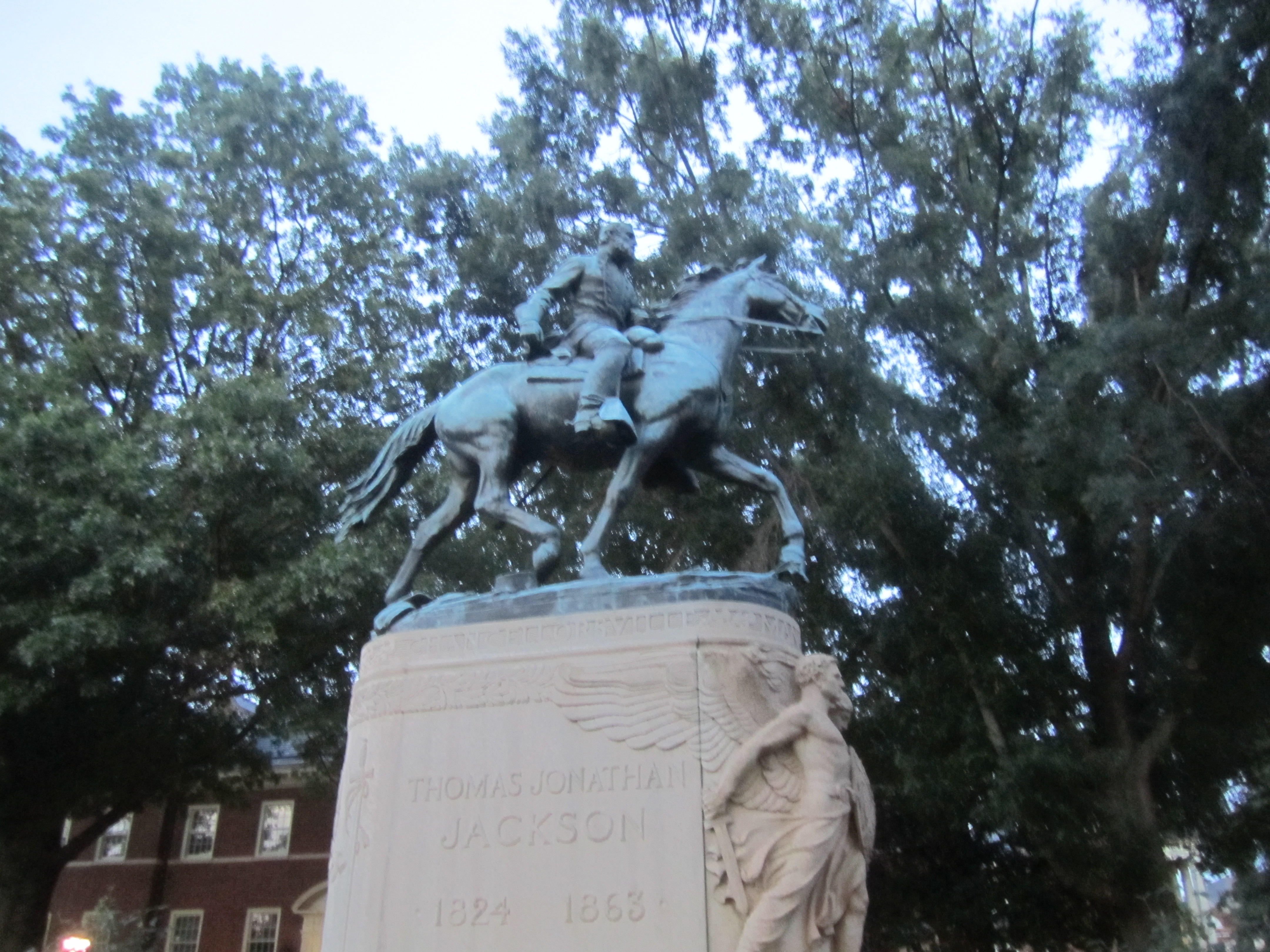 I took photo of Thomas Jonathan Jackson Monument in Charlottesville, VA, with Canon camera.